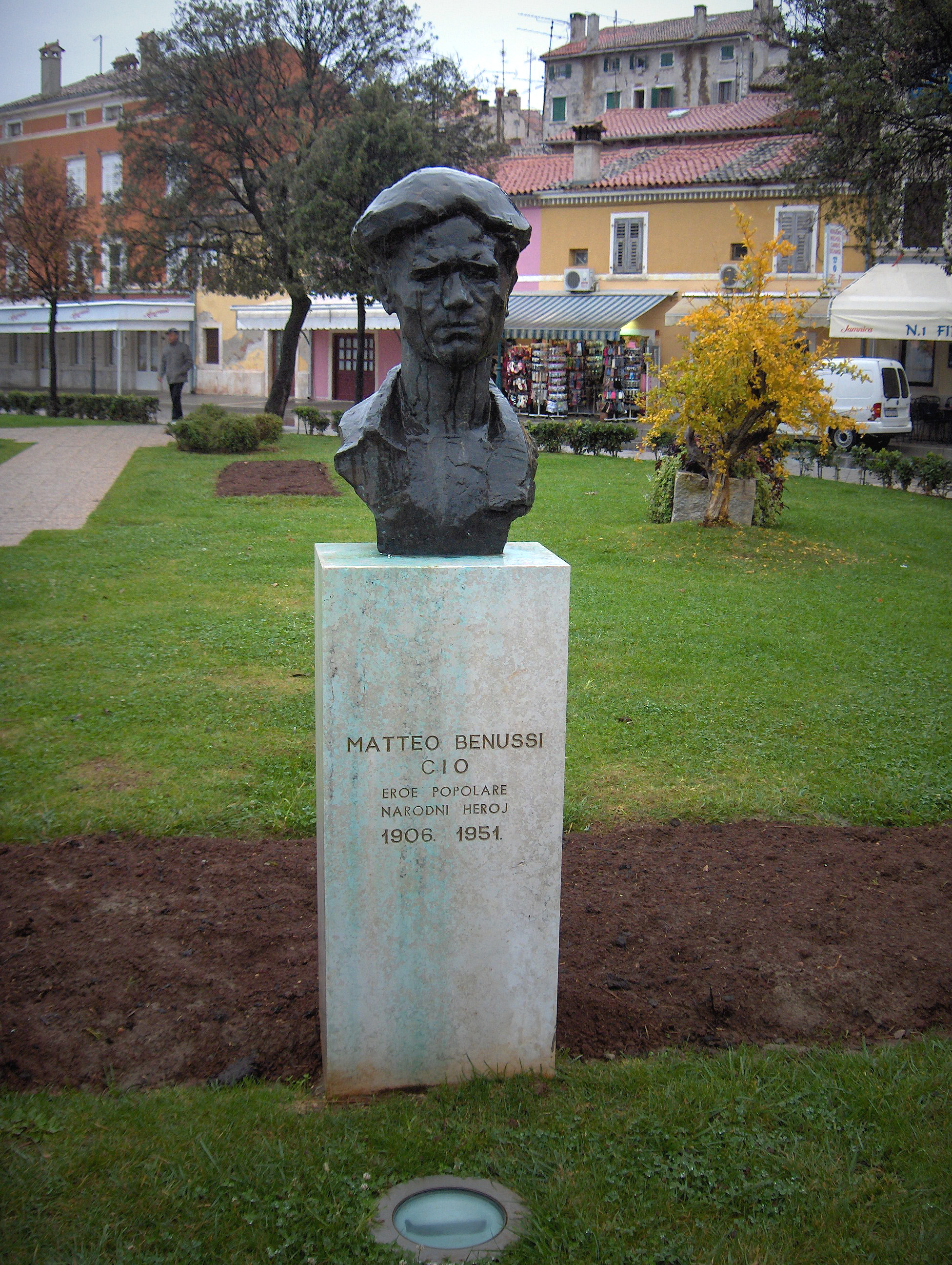 Statue of Matteo Benussi in Rovinj, Croatia